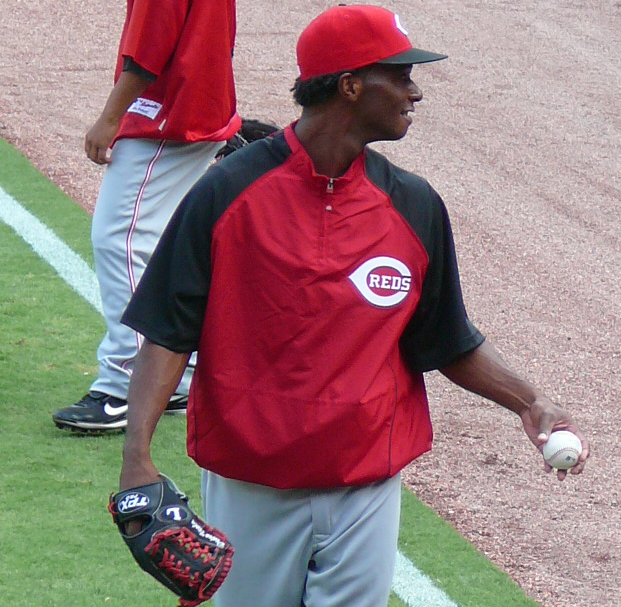 If used somewhere other than Wikipedia, Nelson, by name. 04:16, 20 September 2009 . . Chrisjnelson . . 621×607 (346 KB)